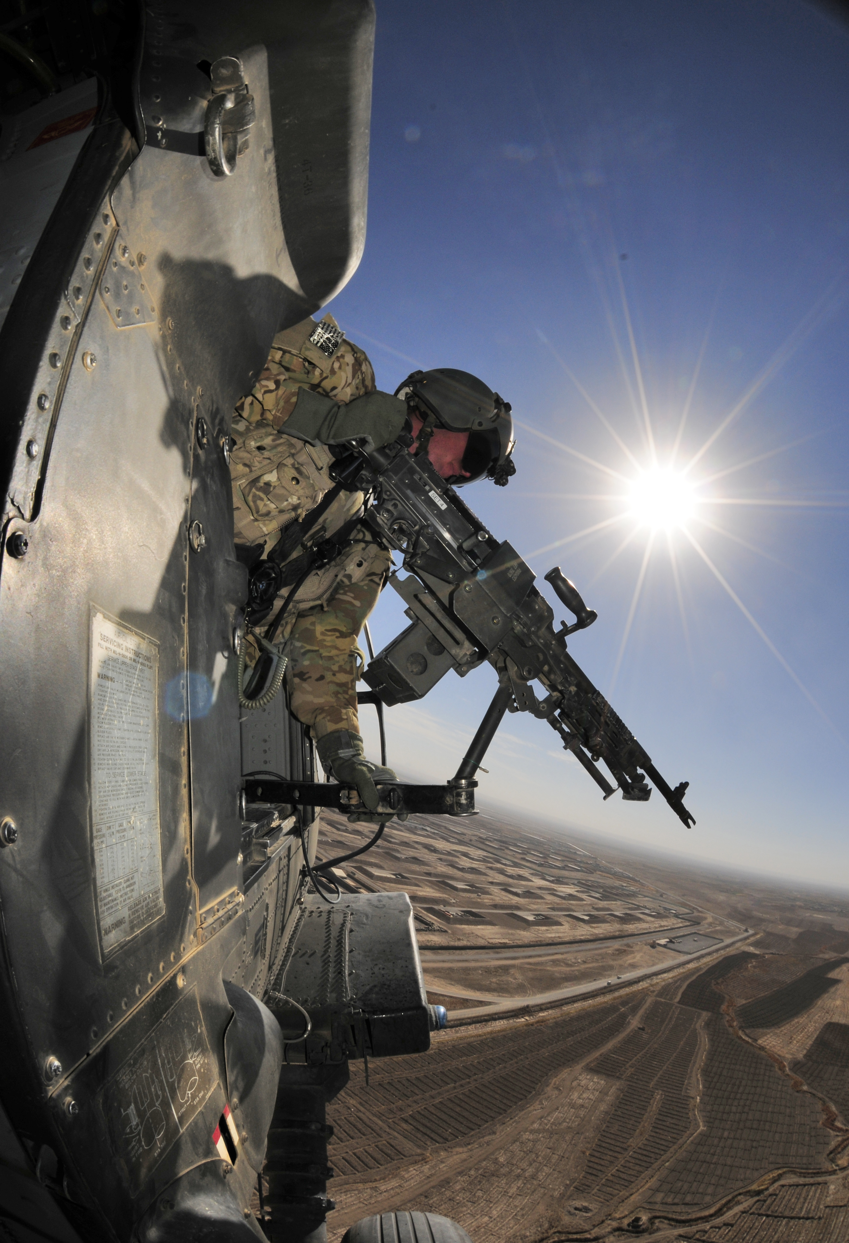 Army Spc. Richard Burton, crew chief with the 25th Infantry Division's 2nd Battalion, 25th Combat Aviation Regiment, provides security in a Black Hawk helicopter during a flight mission over Afghanistan's Kandahar province, Nov. 26, 2012. Burton is from Athens, Ga. (U.S. Army photo by Staff Sgt. Brendan Mackie)